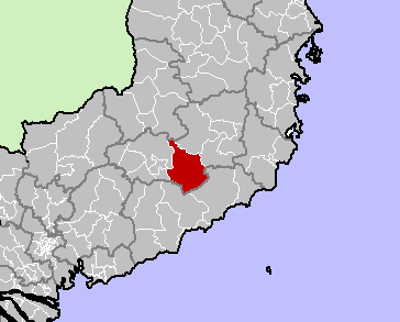 Di Linh District, Lam Dong Province, Vietnam.